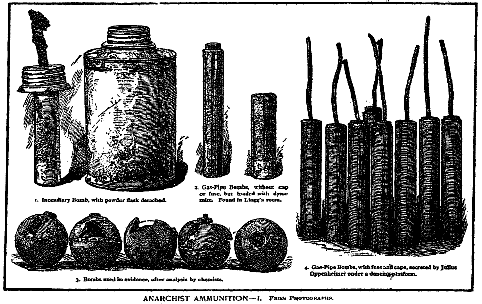 Anarchist ammunition